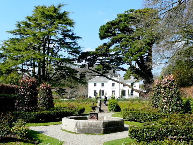 Trevarno House. Viewed from the sunken Italian garden to the south-east of the property. Note the lady patiently holding the gate open for her husband; and spot the peacock.